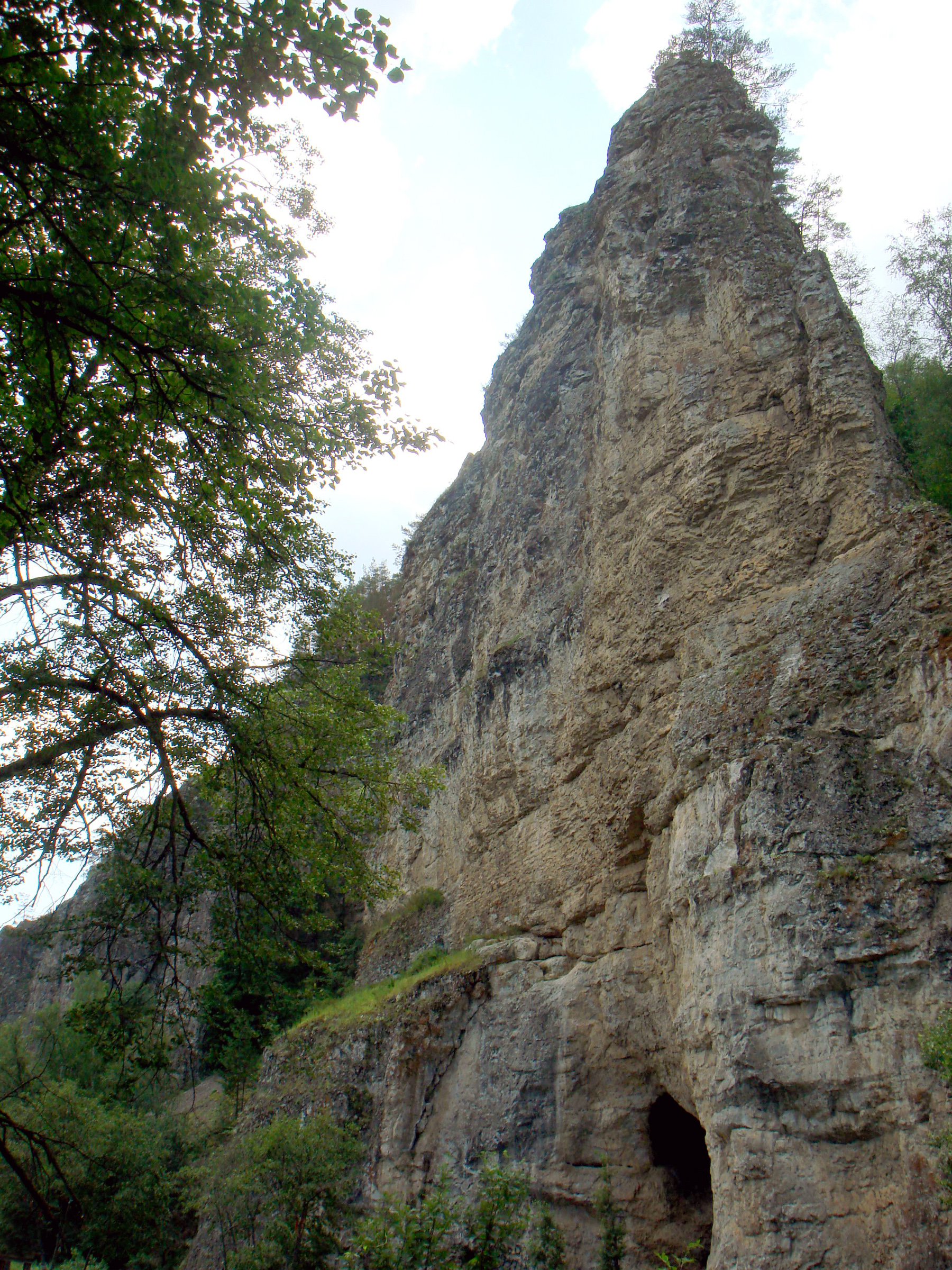 Kalimoskan rock of Bashkortostan, Russia. Natural monument.